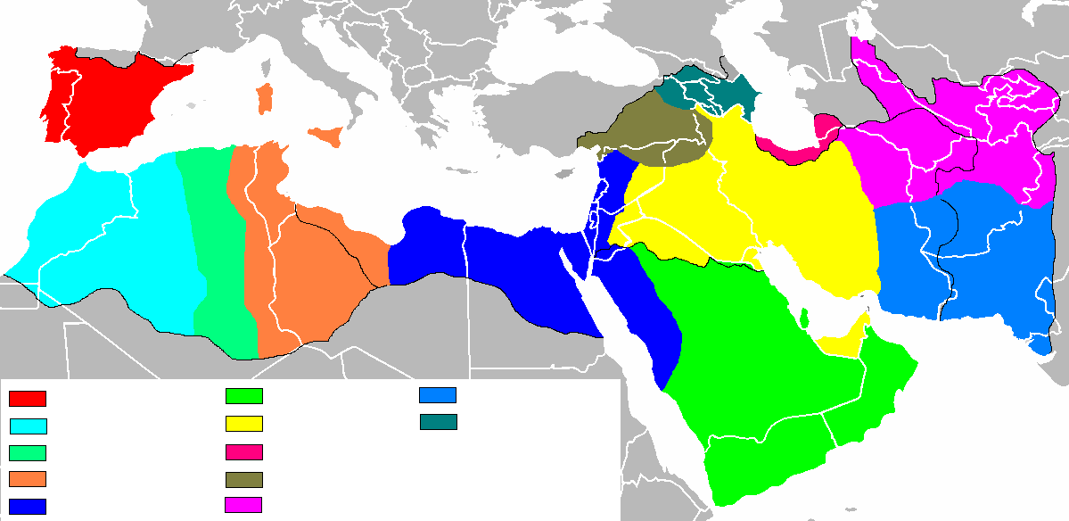 The Fragmenting Caliphate in late Abassid Era